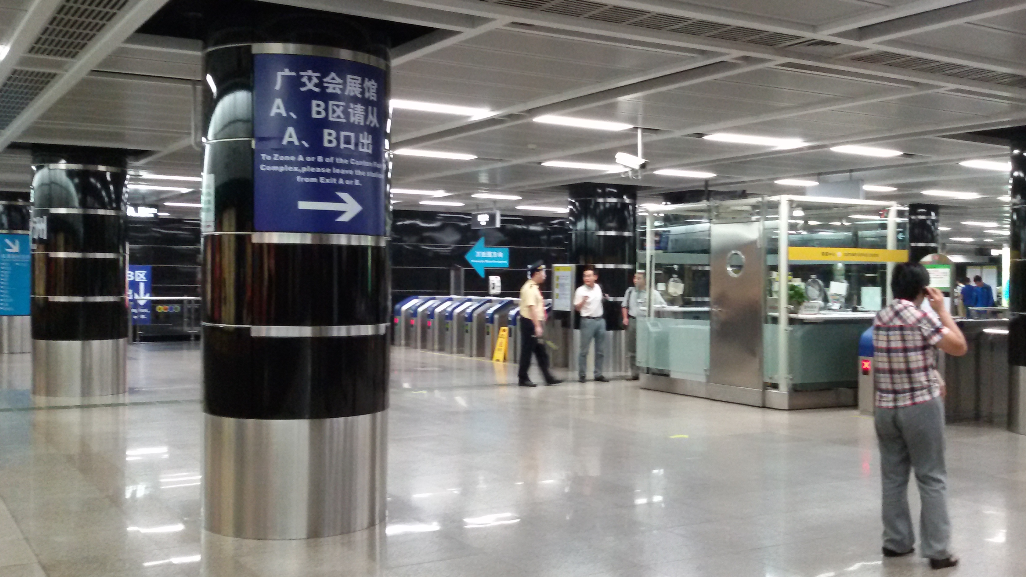 Station Concourse for Pazhou Station in Guangzhou Metro 粵語: 廣州地鐵，琶洲站嘅站廳。